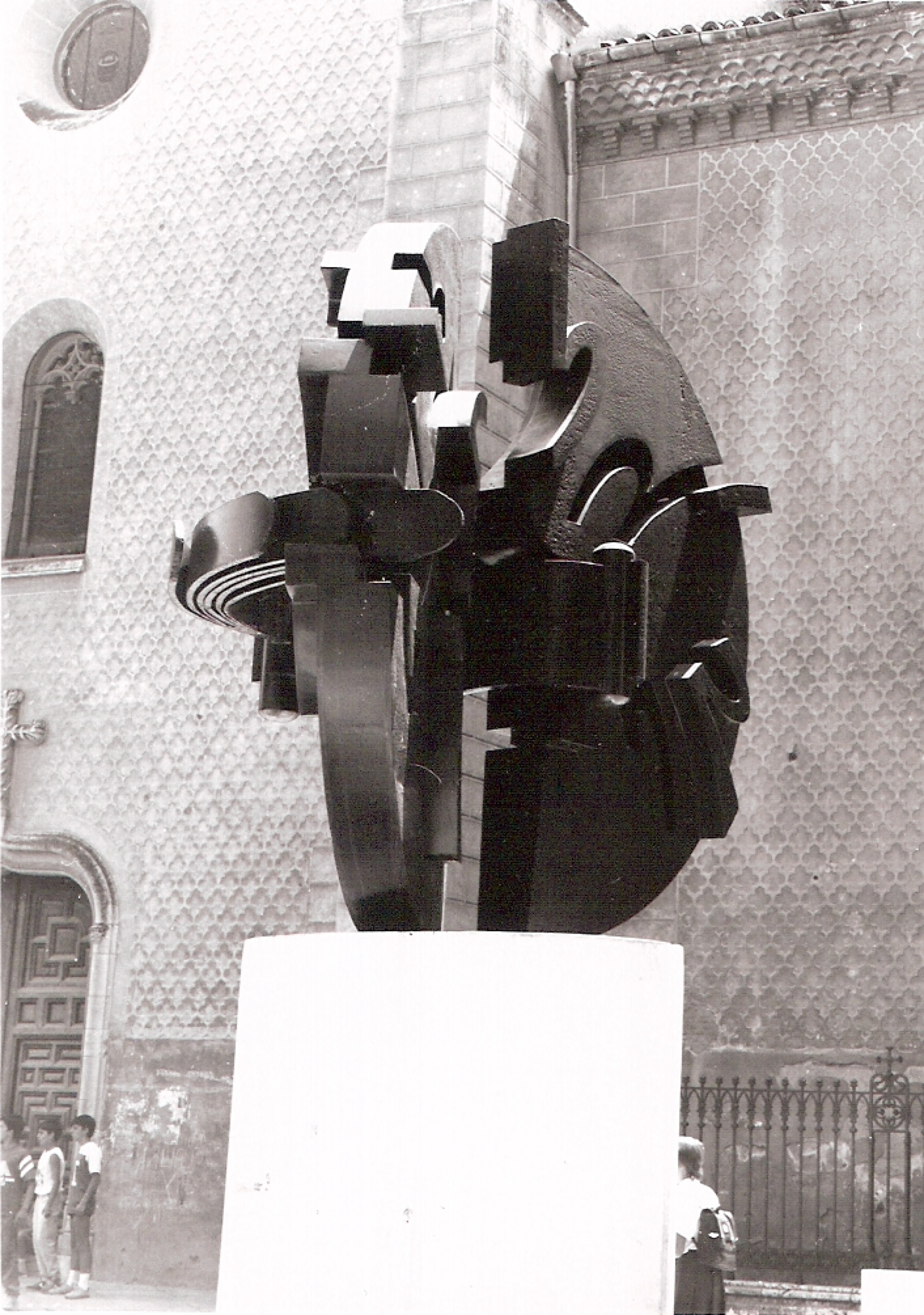 Public sculpture by Juan Antonio Palomo